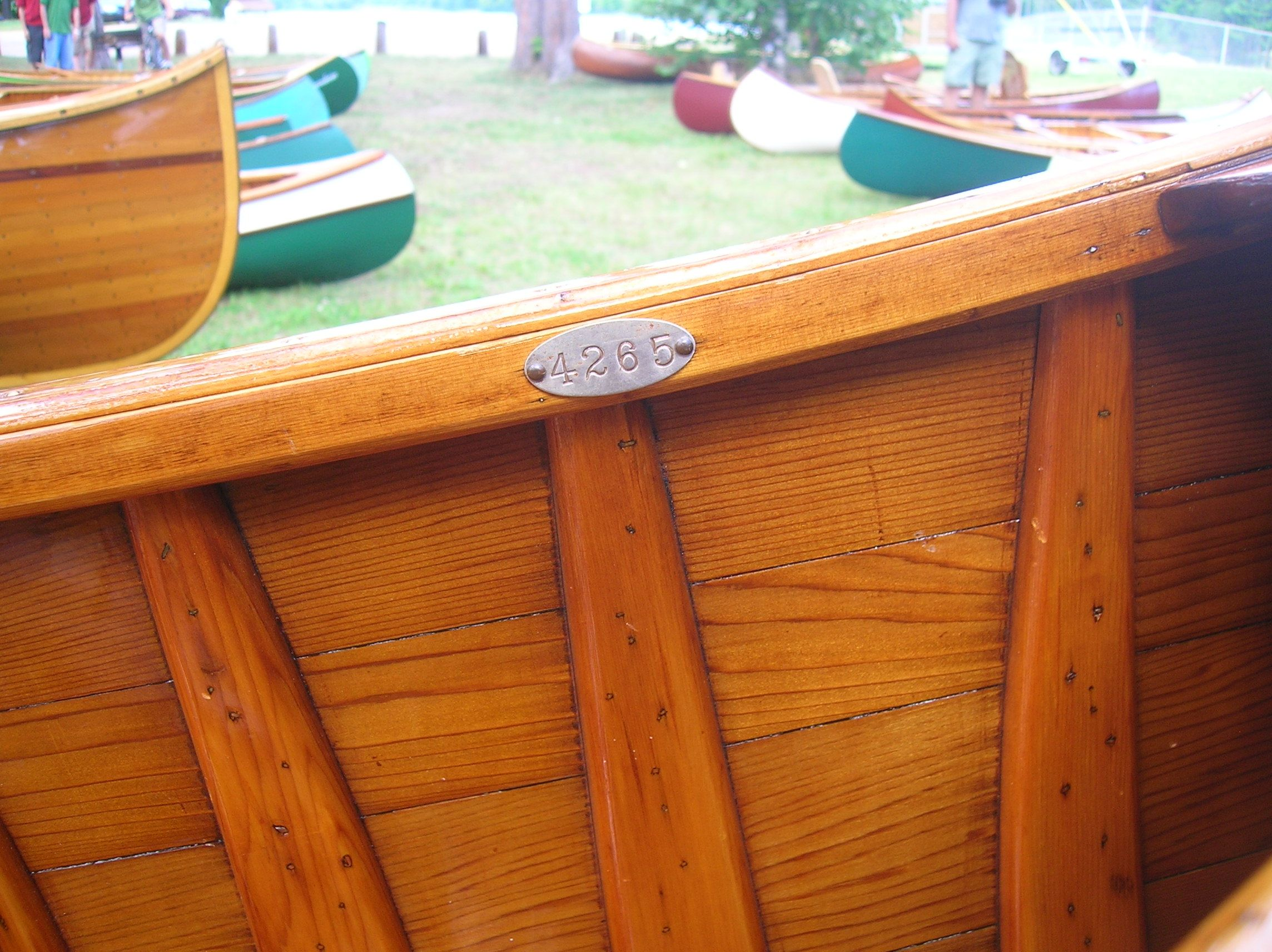 serial number plate or tag located on the inwale of a Morris canoe. Canoes with this placement of the serial number date from 1900-1910